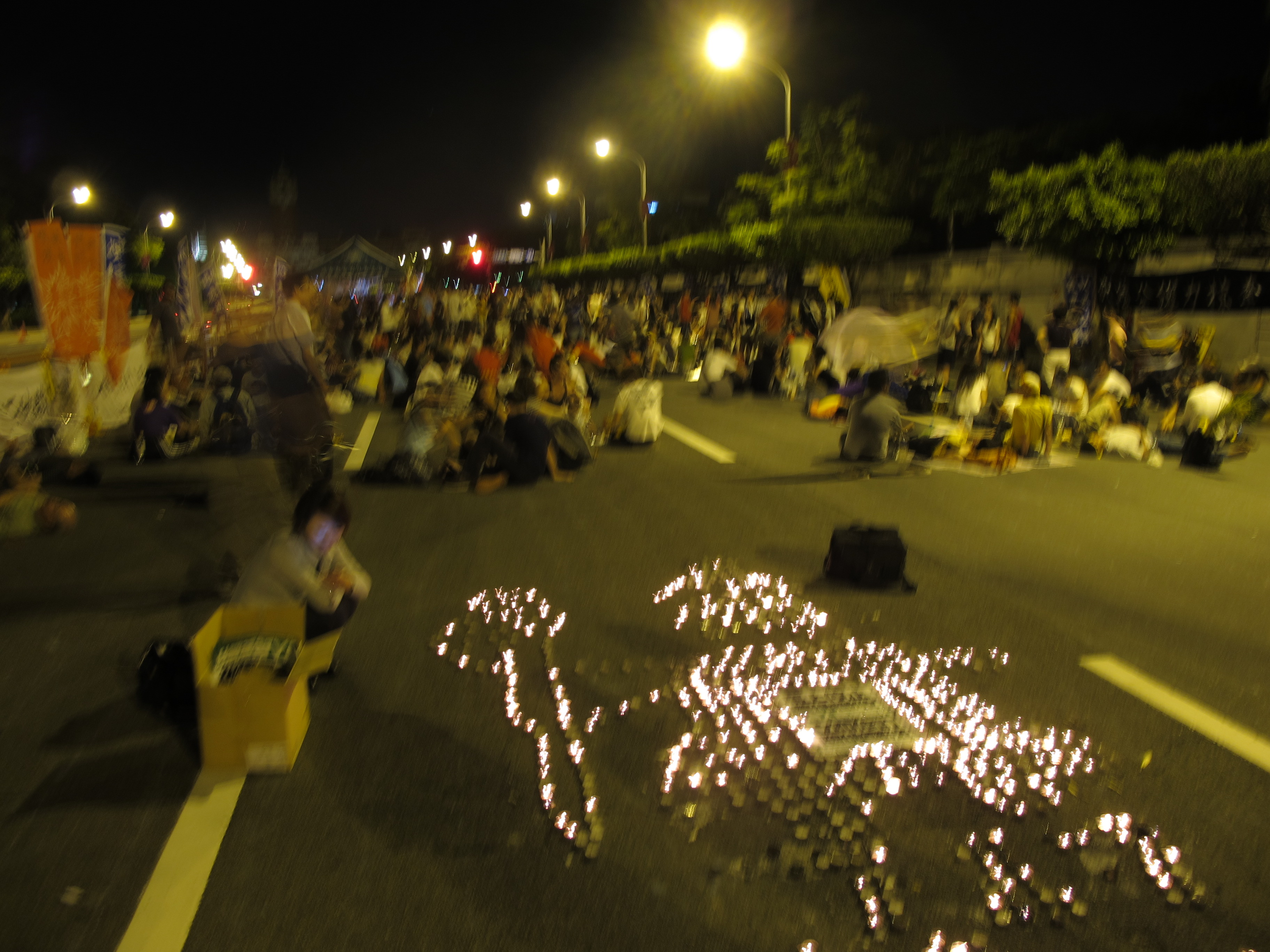 Miaoli Dabu Incident 717 Night Watch at Ketagalan Boulevard.